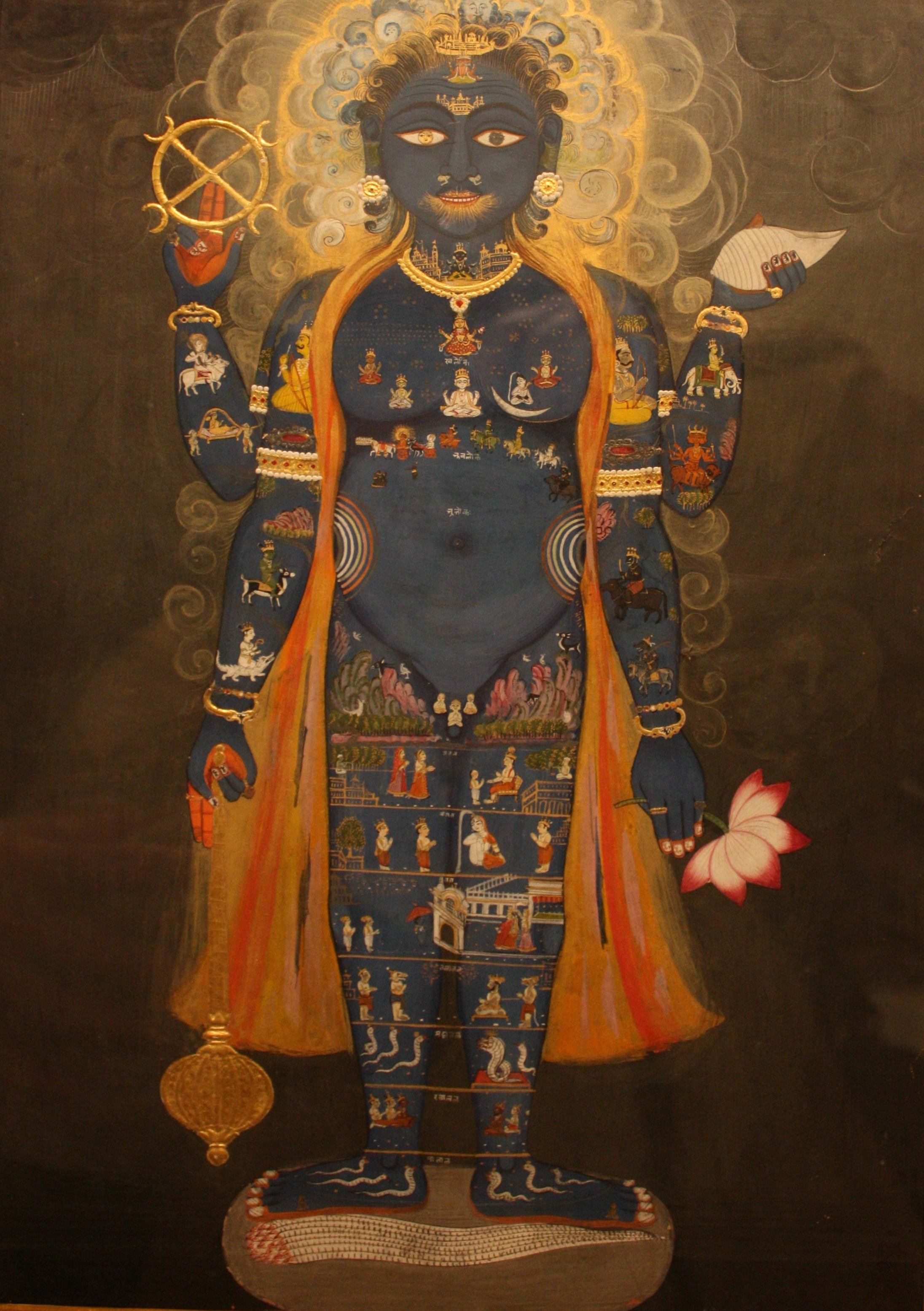 Vishnu as the Cosmic Man (Vishvarupa) Opaque watercolour on paper Jaipur, Rajasthan c. 1800-50 The blue-skinned Hindu god Vishnu is shown with four arms, each holding one of his attributes: a conch shell, a lotus flower, a mace and his circular wand, called Sudarshana chakra (meaning 'beautiful disc'). The small figures all over his body refer to his role as the Universal Man who encompasses all of creation: the Vishvarupa (literally 'all forms'). Wikipedia Loves Art at the Victoria and Albert Museum This photo of item # IS.33-2006 at the Victoria and Albert Museum was contributed under the team name "va_va_val" as part of the Wikipedia Loves Art project in February 2009. Victoria and Albert Museum The original photograph on Flickr was taken by Val_McG—please add a comment to the original Flickr page whenever a use has been made on Wikipedia or another project. Project galleries on Flickr: this institution, this team